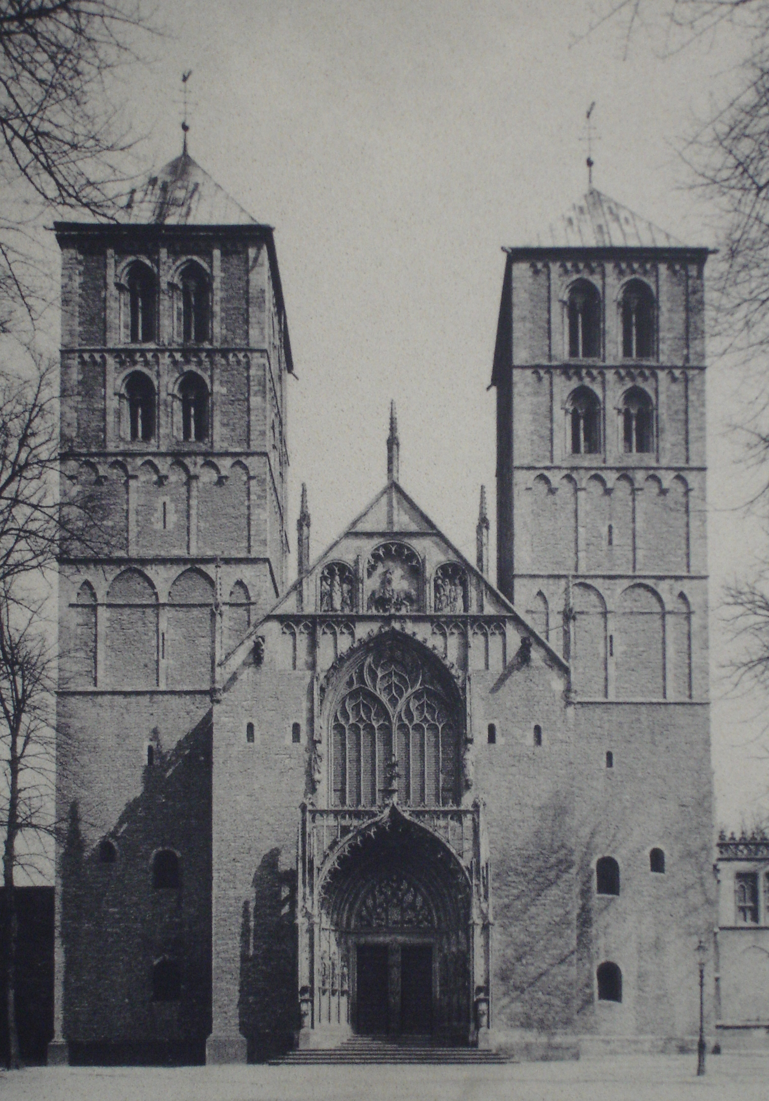 Outer view on the "Westwerk" (west-portal) of the cathedral of Münster, Westphalia, Germany